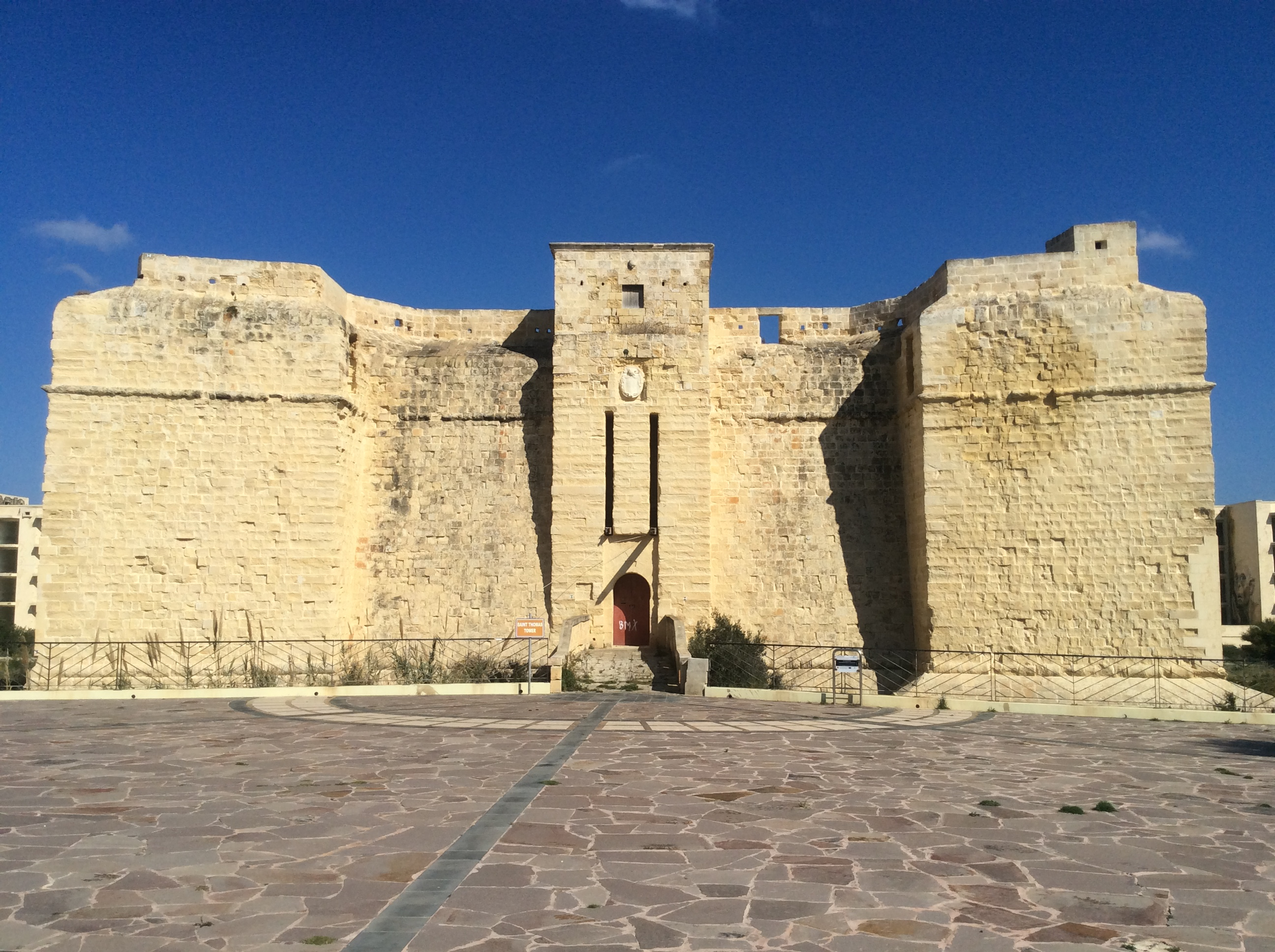 St. Thomas Tower, Marsascala, Malta